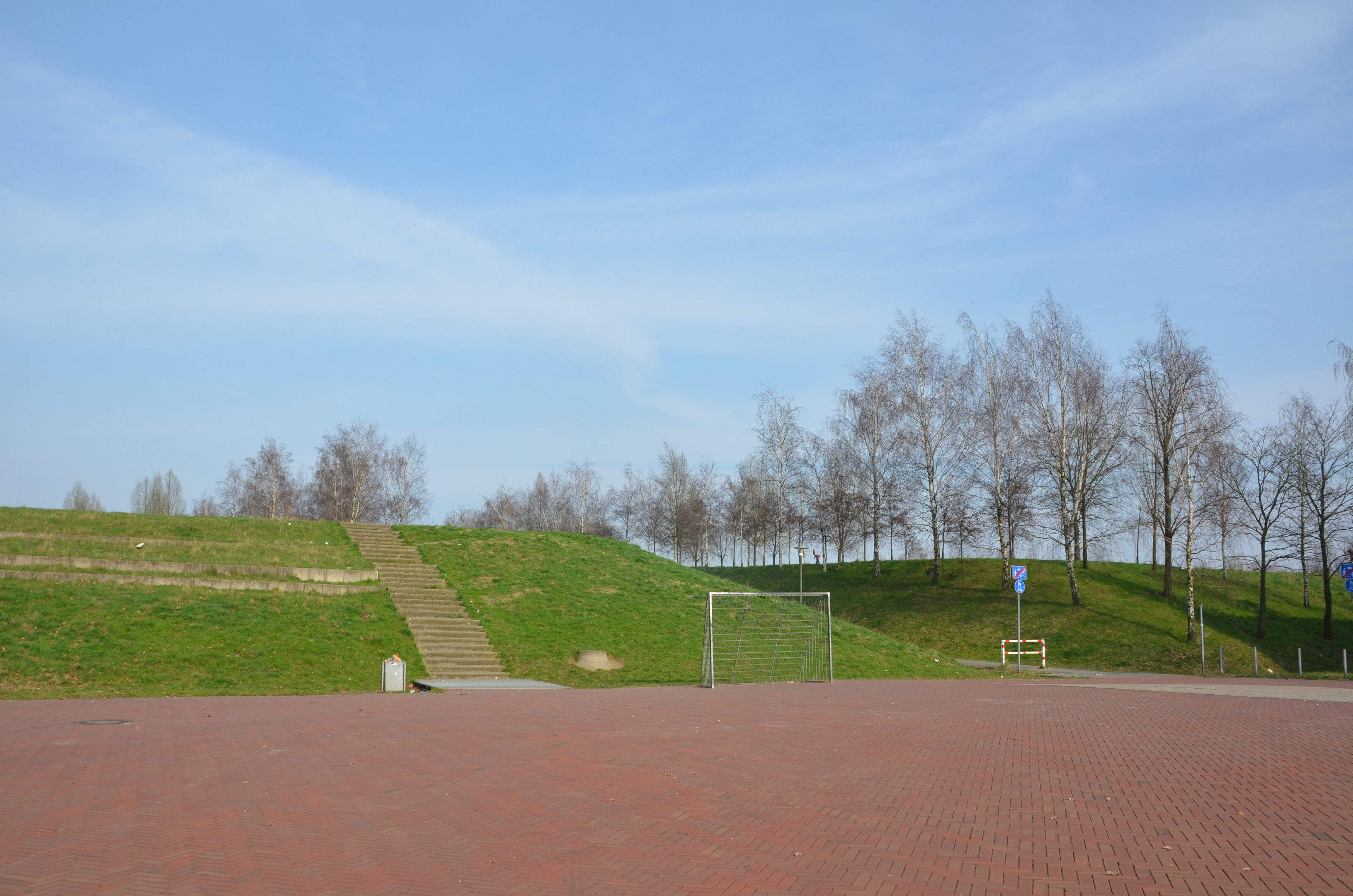 Prosper-Park in Bottrop